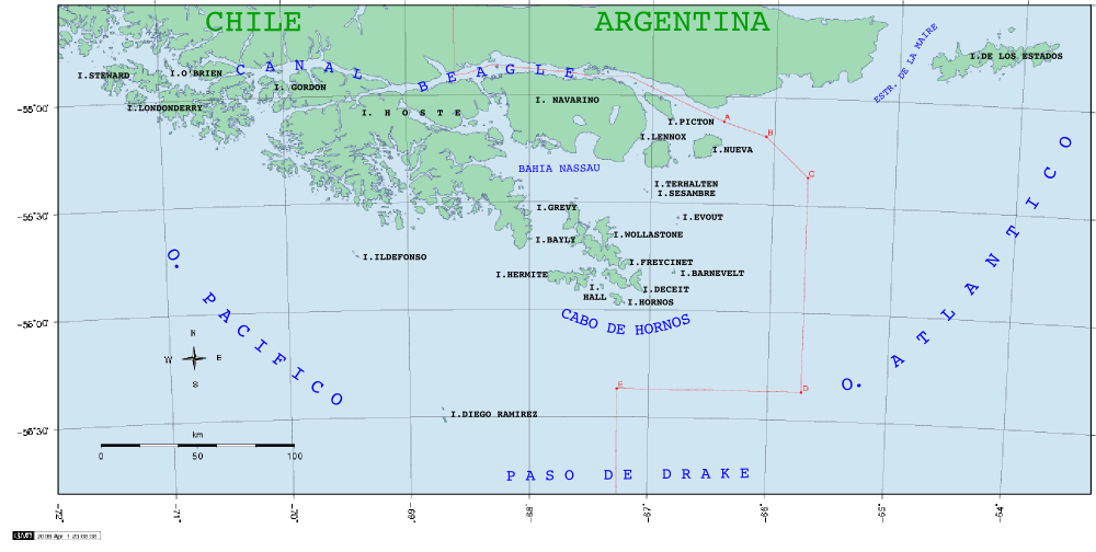 cape horn map. spanish toponymy.